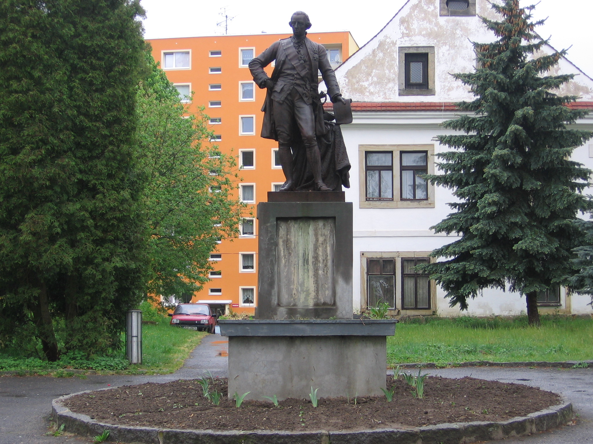 Statue of the Emperor Joseph II in Stráž pod Ralskem (a town in Liberec Region, the Czech Republic)